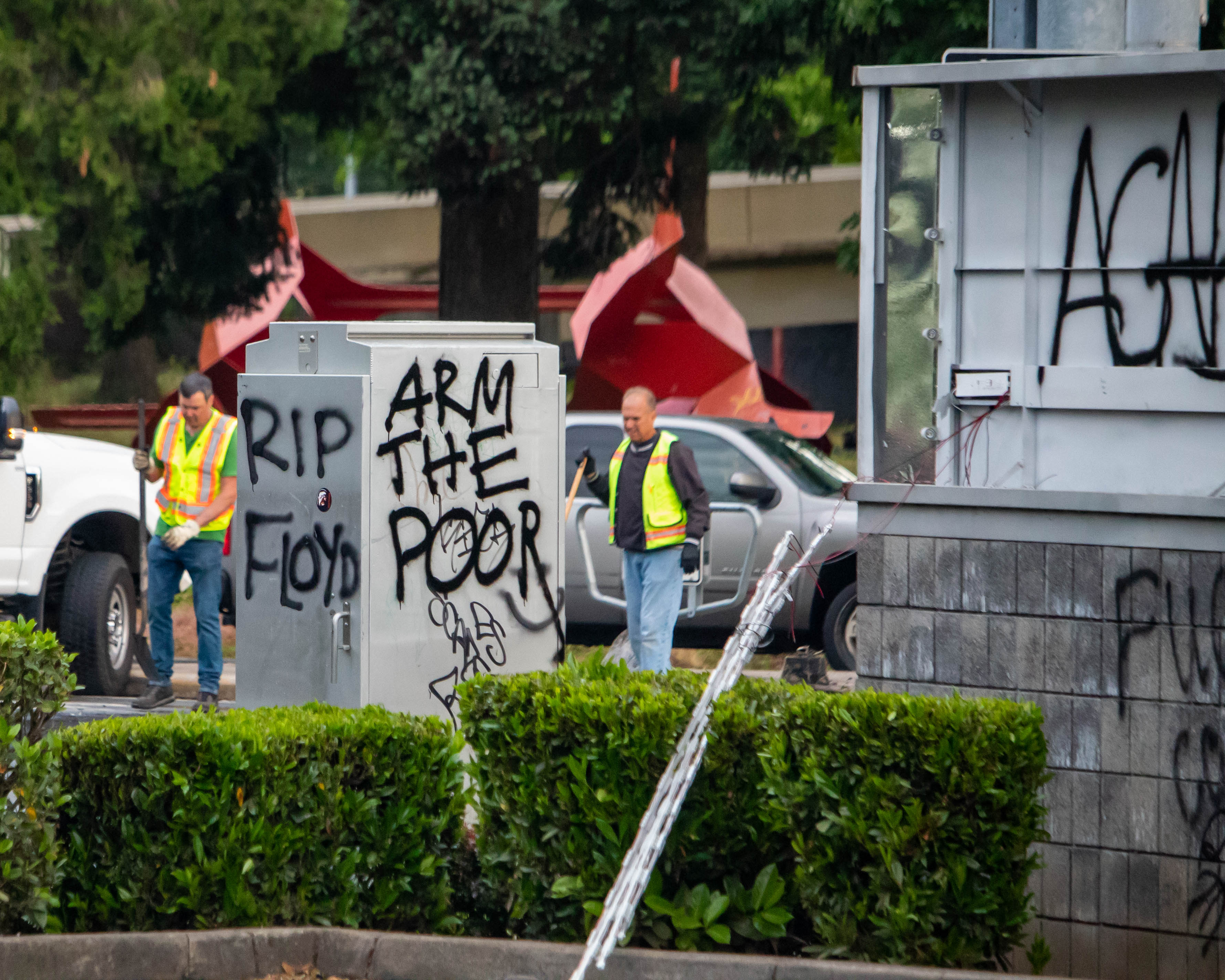 Seems that violence begets violence.